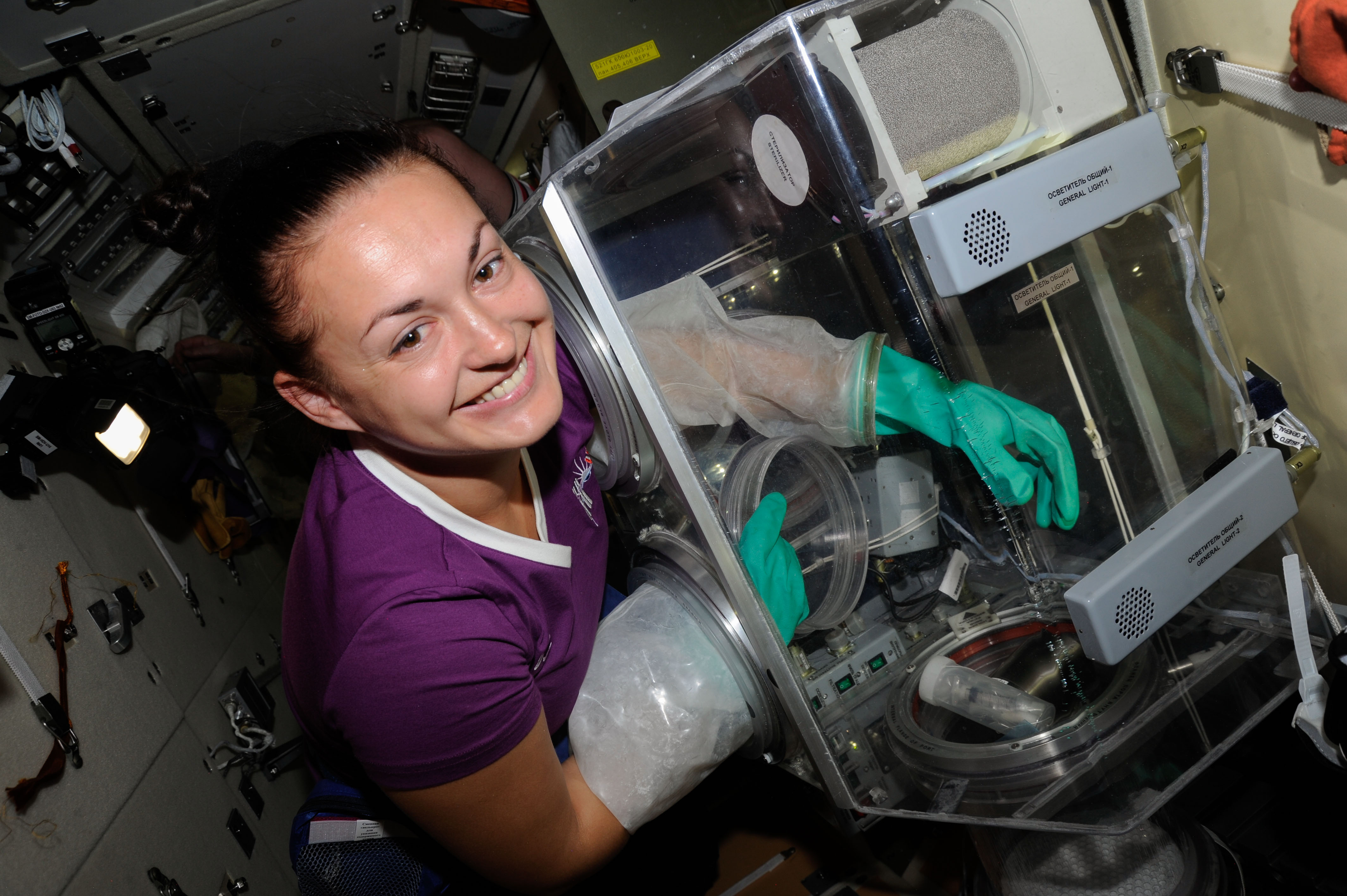 Russian cosmonaut Elena Serova, Expedition 41 flight engineer, works with test samples from the Kaskad cell cultivation experiment in a glovebox in the Poisk Mini-Research Module 2 (MRM2) of the International Space Station.